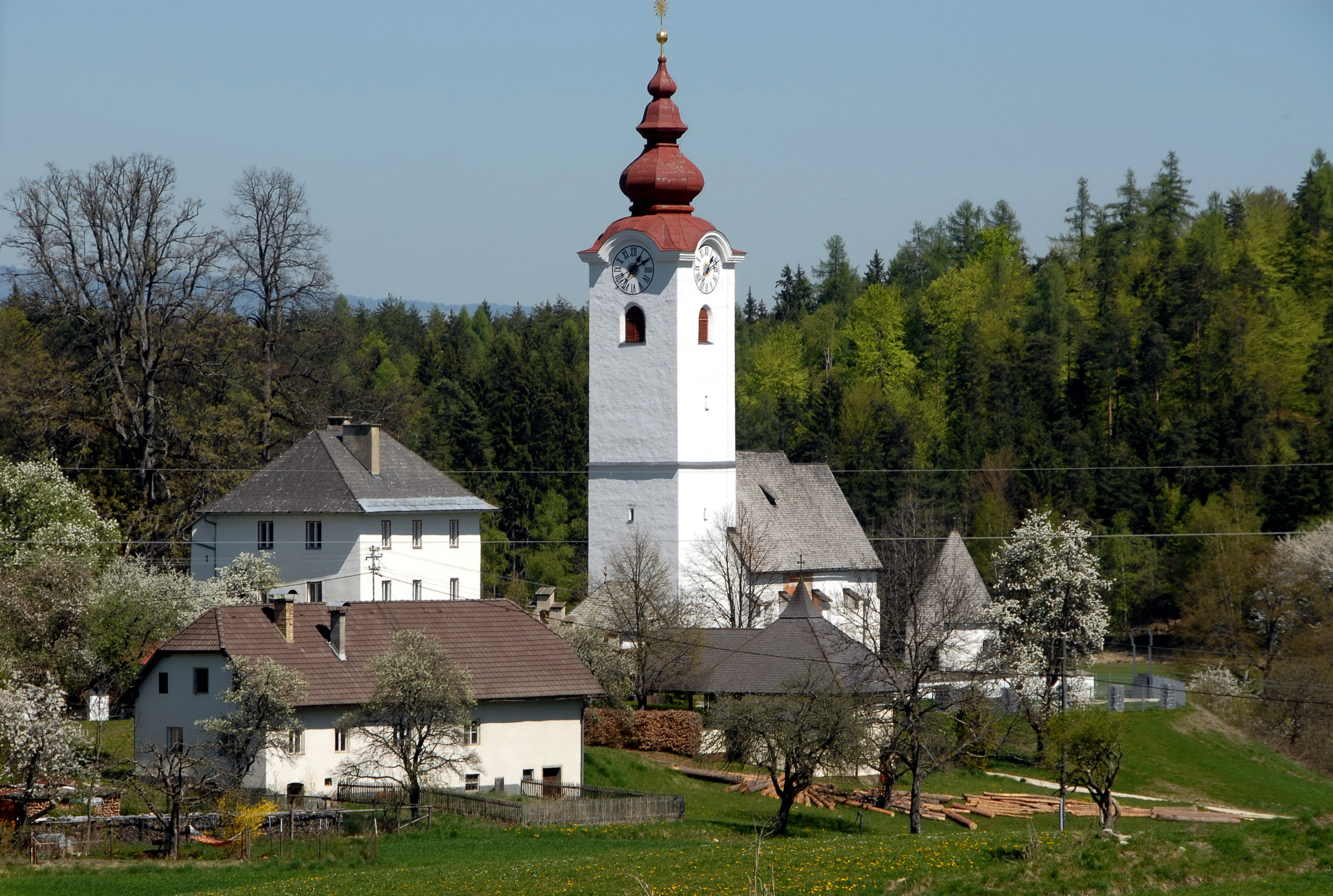 Parish church Saint Lambertus in Radsberg, market town Ebenthal, district Klagenfurt Land, Carinthia, Austria, European Union